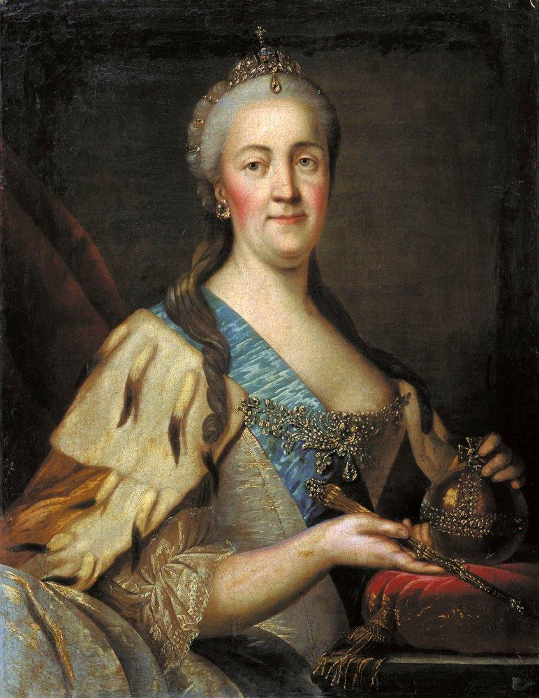 Portrait of Catherine II. c.1770. Oil on canvas. 85x65.5cm. Held at the Art Museum of Nizhny Novgorod, Nizhny Novgorod.